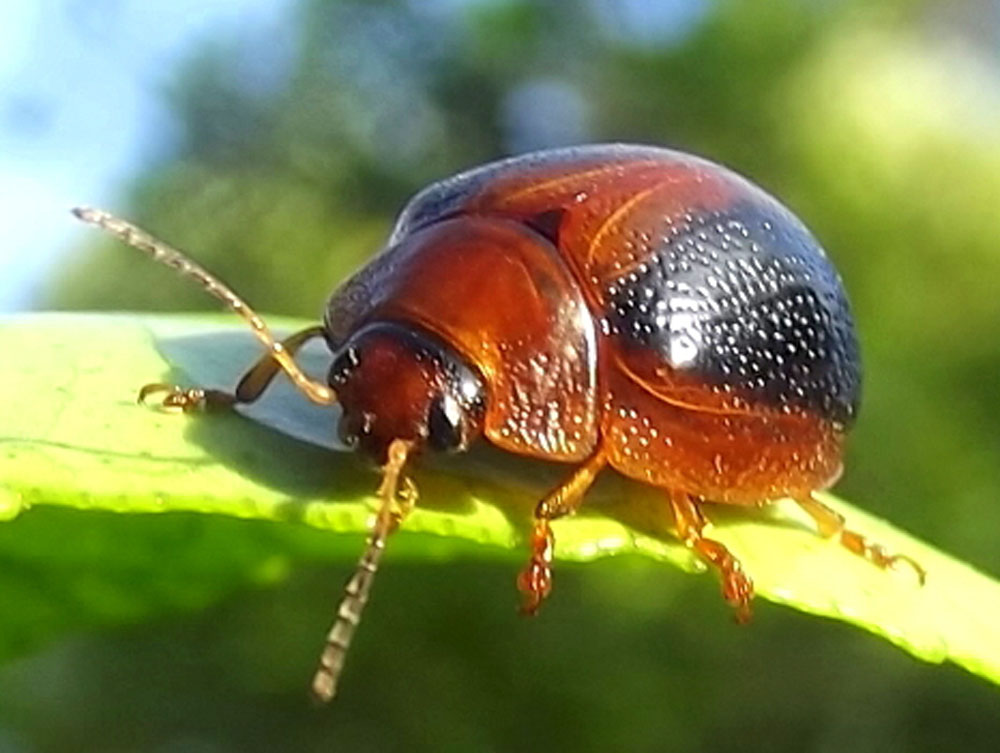 Dicranosterna immaculata